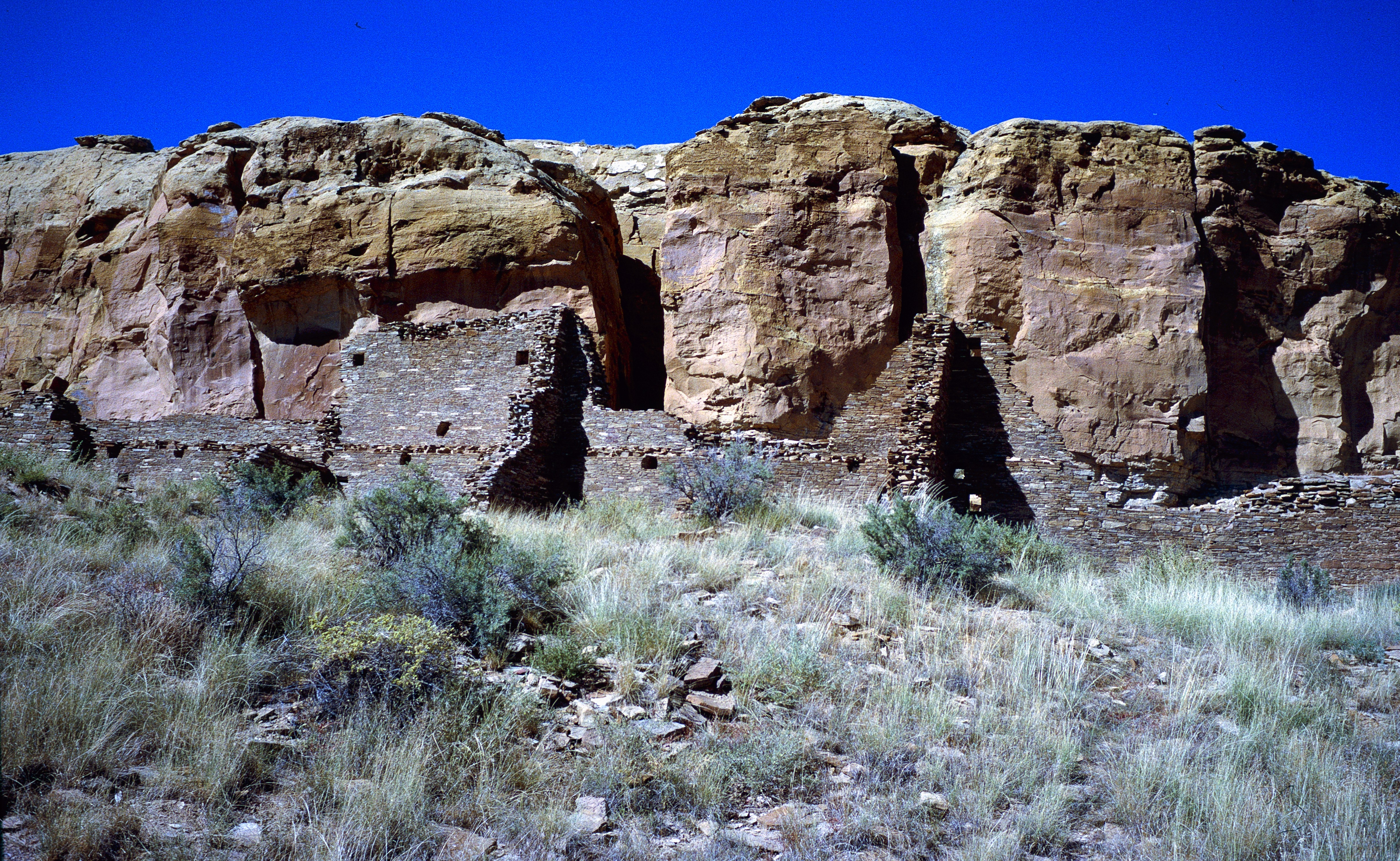 Hungo Pavi, Chaco Canyon, New Mexico, U.S.A.